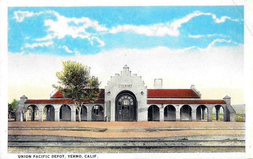 Color linen postcard depicting the Union Pacific Railroad depot in Yermo, California. The depot was built by John and Donald Parkinson.in March 1924 and demolished in 1979-1980 to make way for new classification yard that opened in 1981. (1) The back of the postcard is divided, postmarked in 1928 and reads: A-98916 Barkalow Bros. Publishing - Omaha, Neb. C.T. American Art